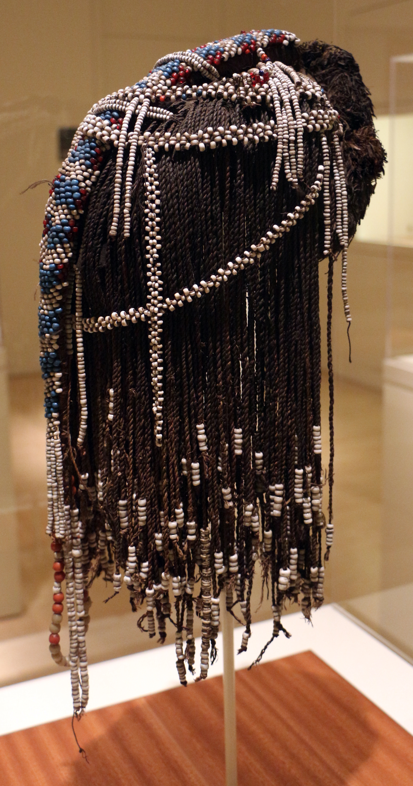 African art in the Indianapolis Museum of Art